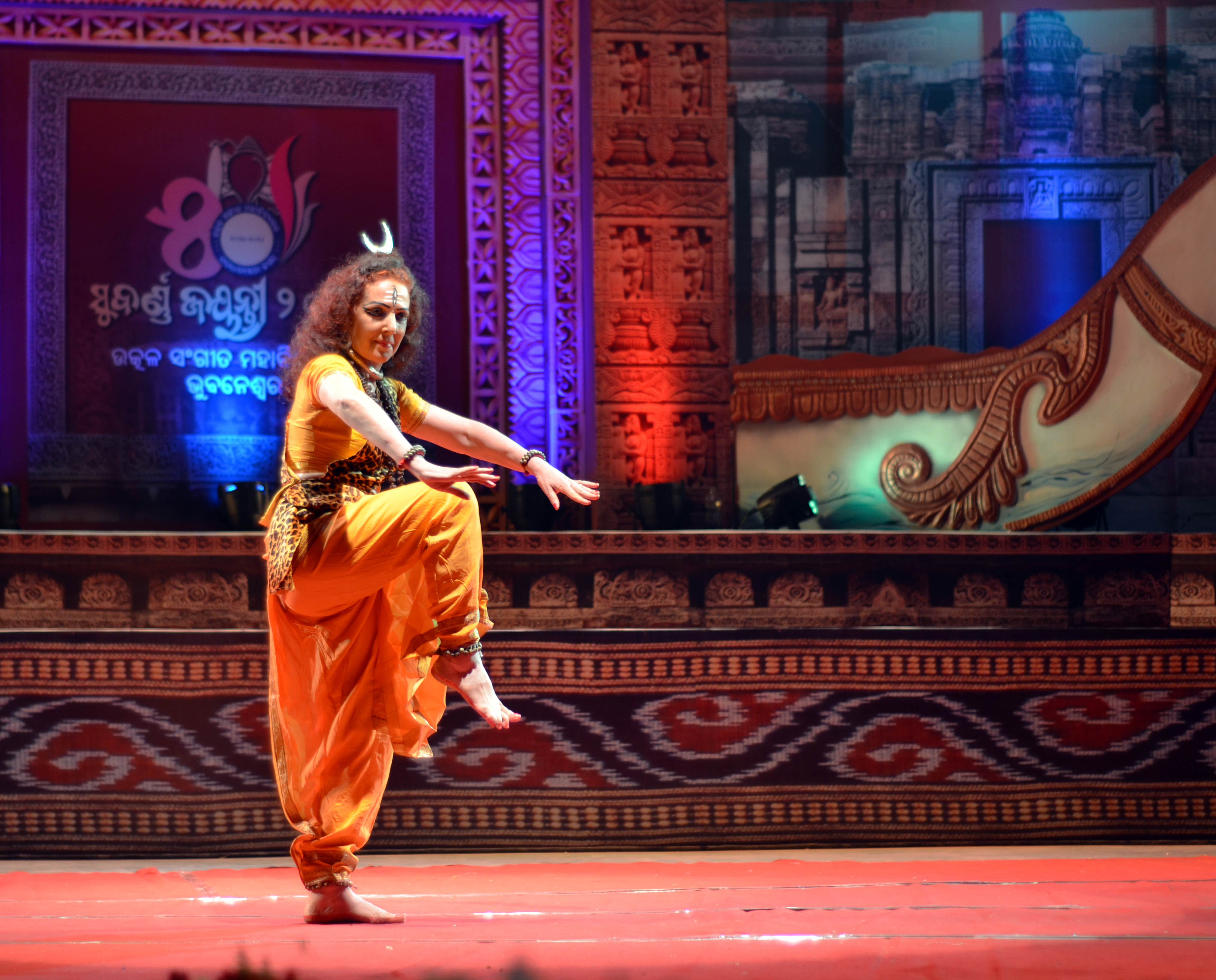 Ileana Citaristi performing Mayurbhanj Chau style Siba Tandaba during Golden Jubilee celebration at Utkal Sangeet Mahavidyalaya.